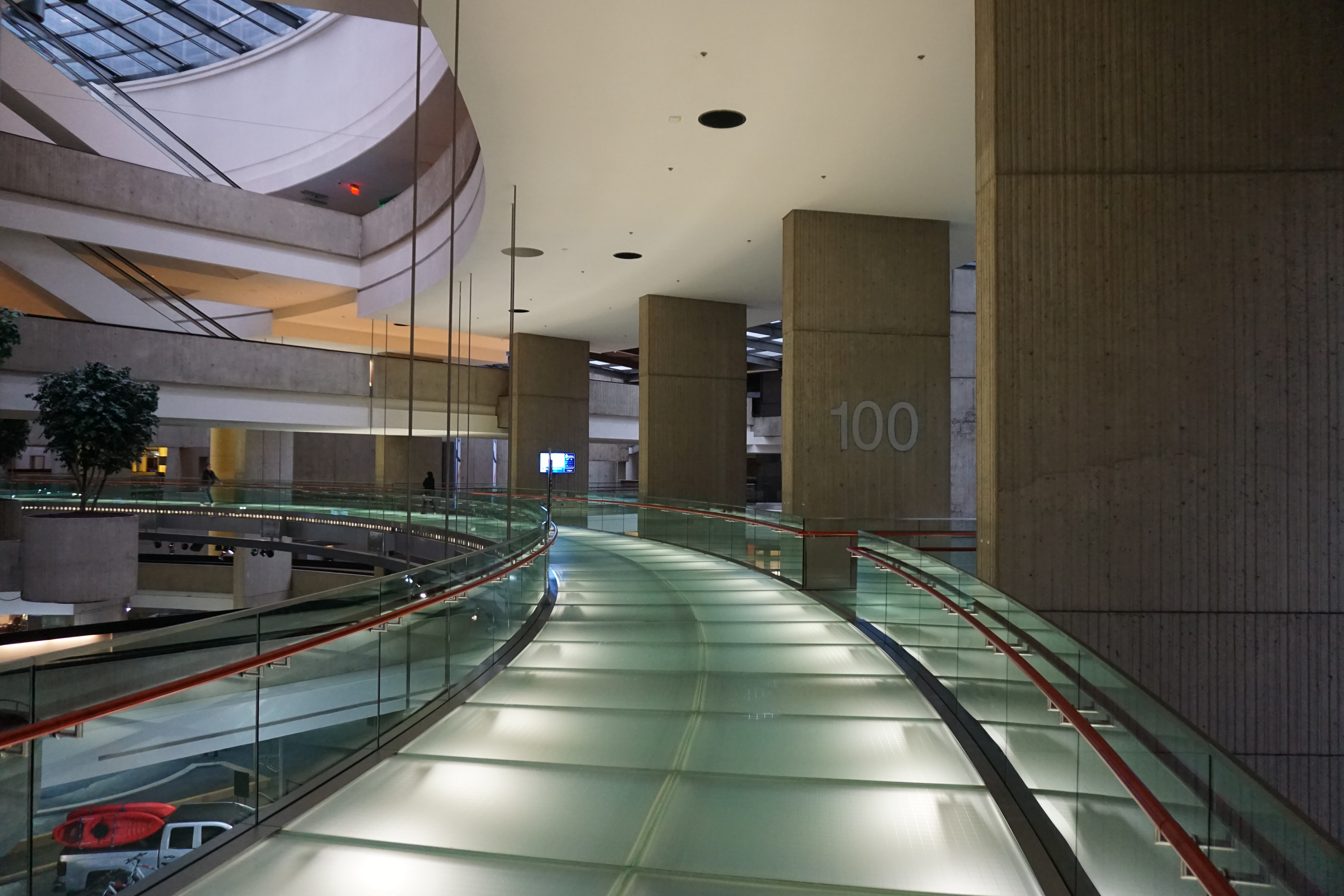 The interior of the Renaissance Center in Detroit, Michigan (United States).